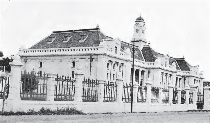 Batavia office of the Java Bank